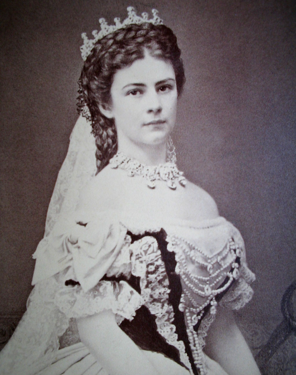 Photograph of the empress Elisabeth (1837-1898)